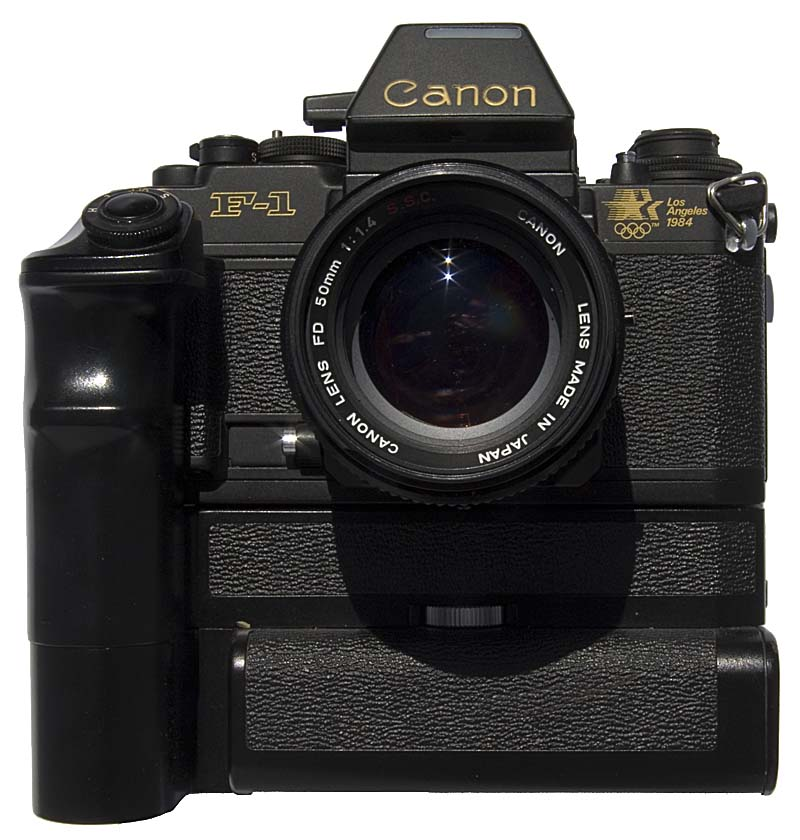 Canon F-1 Los Angeles Olympics Edition (35 mm SLR camera)